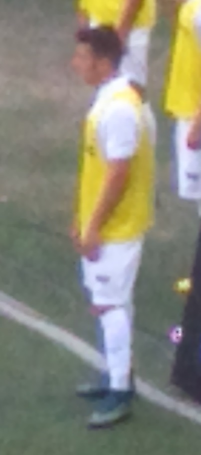 Ronaldo Mendes warming up for Santos against São Bernardo on 30 January 2016, at the Vila Belmiro.